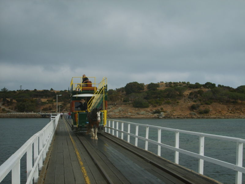 The Victor Harbor Horse Drawn Tram crossing the 'causeway' from Granite Island, at Victor Harbor in South Australia. For more information, see the Wikipedia articles Granite Island (Australia) and Victor Harbor Horse Drawn Tram.